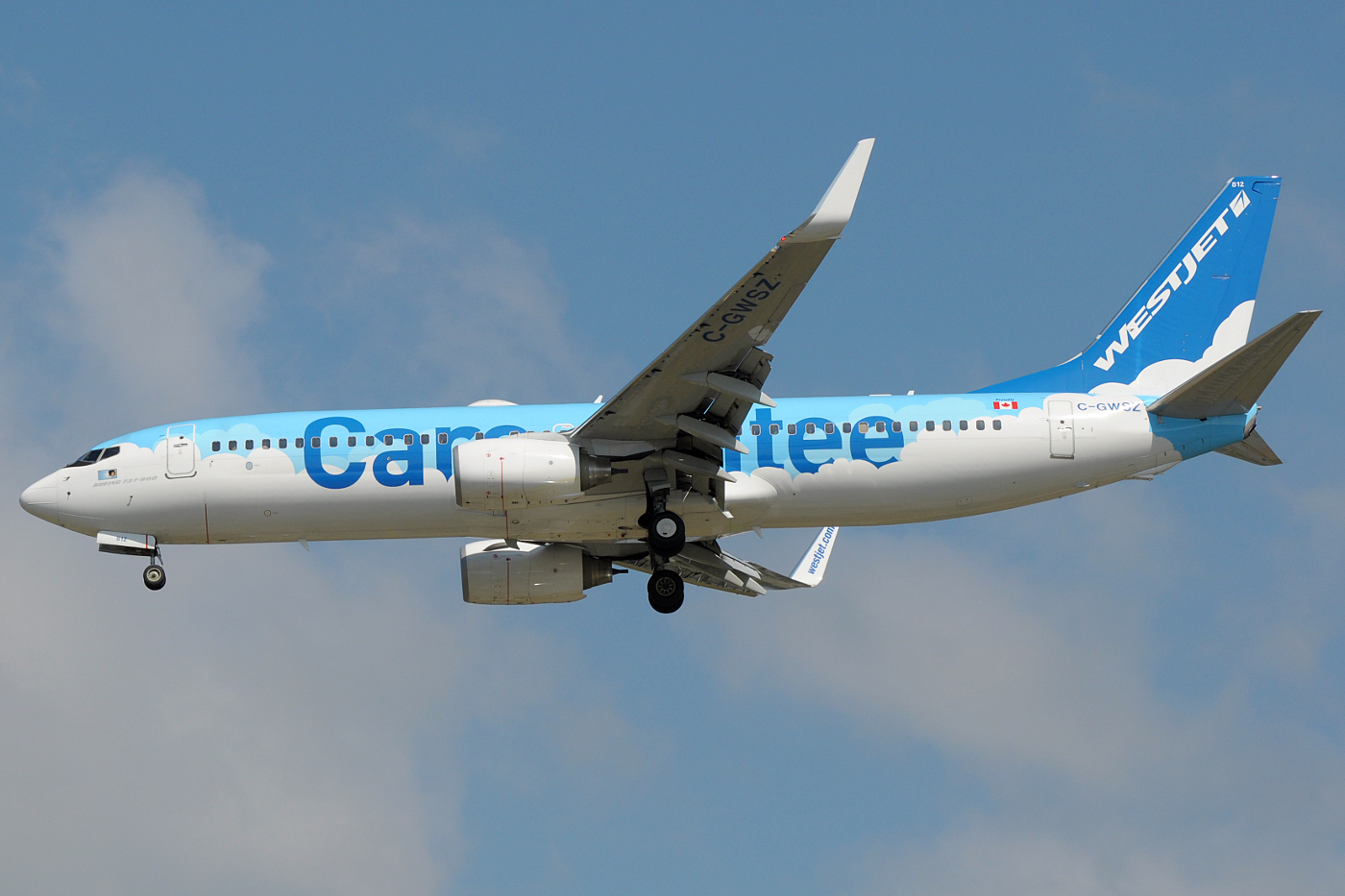 As of September 2011, the only Westjet with a special colourscheme. It is promoting its customer-service promise, or "Care-antee". The other side is in French.